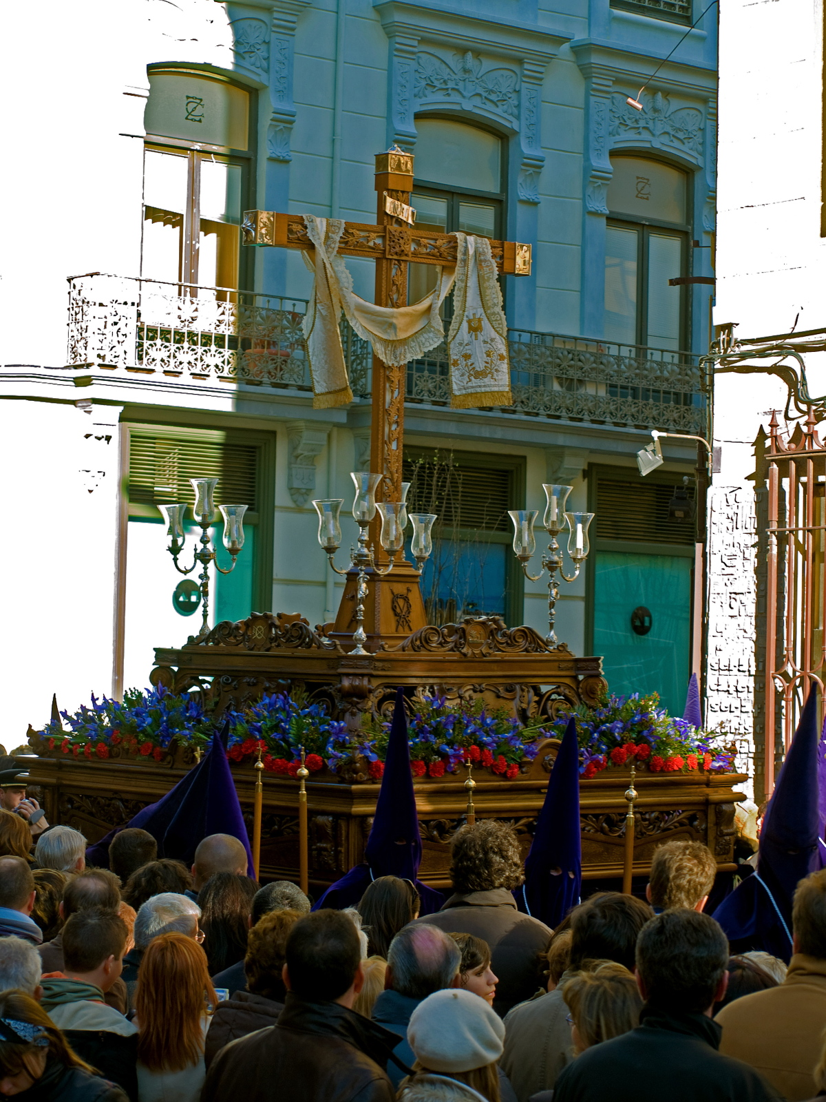 Procession of the religious brotherhood Cofradía de la Santa Vera Cruz, Zamora (Spain), Holy Week 2008